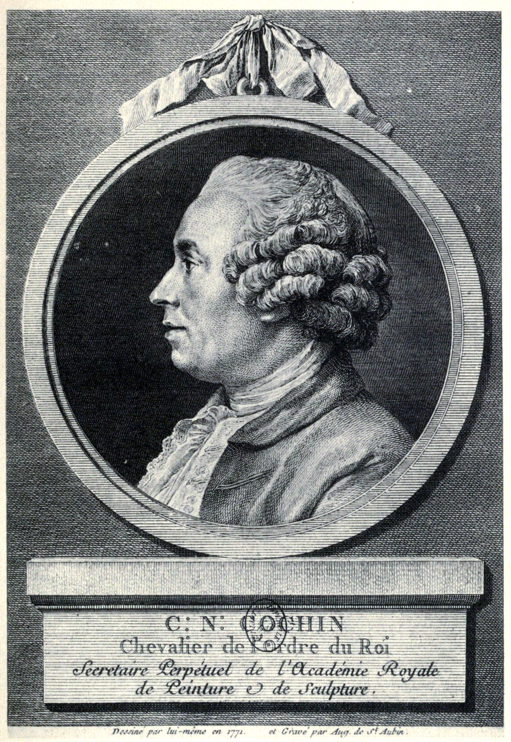 French portrait engraving of the XVIIth and XVIIIth centuries (1910). Author: Thomas, Thomas Head, 1881- Subject: Engraving -- France History; Engravers -- France; Portraits, French; Art, Modern -- 17th-18th centuries France; France -- Biography Portraits Publisher: London, Bell Possible copyright status: NOT_IN_COPYRIGHT Language: English Call number: nrlf_ucb:GLAD-167946426 Digitizing sponsor: MSN Book contributor: University of California Libraries Collection: americana; cdl Selected metadata Copyright-evidence-operator: judyjordan Copyright-region: US Copyright-evidence: Evidence reported by judyjordan for item frenchportraiten00thomrich on November 30, 2007: no visible notice of copyright; stated date is 1910. Copyright-evidence-date: 20071130014042 Scanningcenter: rich Mediatype: texts Collection-library: nrlf_ucb Identifier-bib: GLAD-167946426 Identifier: frenchportraiten00thomrich Imagecount: 402 Ppi: 400 Lcamid: 320094 Rcamid: 333345 Camera: 1Ds Operator: scanner-david-stites@... Scanner: rich4 Scandate: 20071130071150 Identifier-access: Identifier-ark: ark:/13960/t06w9992r Bookplateleaf: 0005 Sponsordate: 20071130